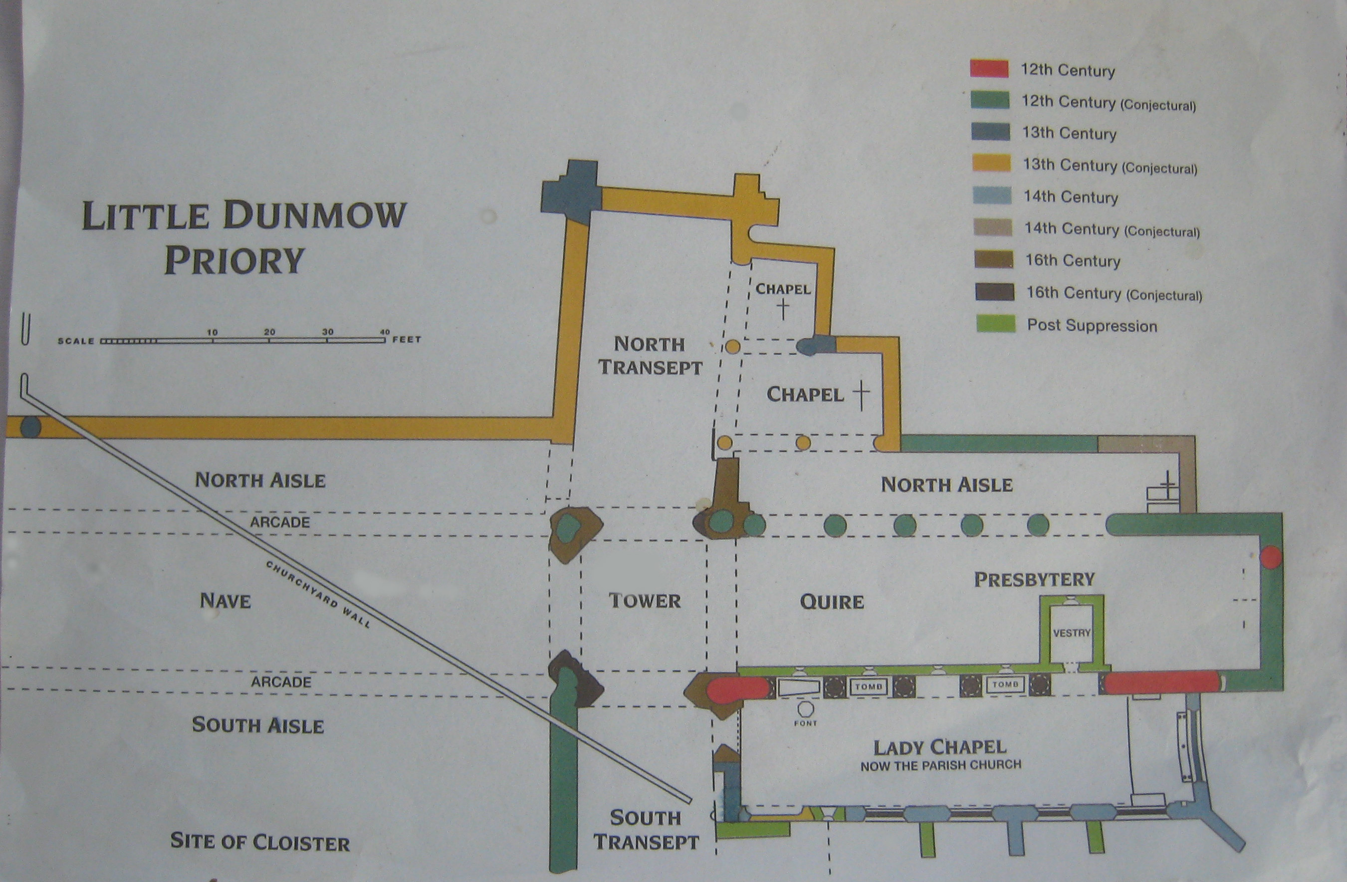 Plan of Little Dunmow Priory showing Lady Chapel which exists as Parish Church